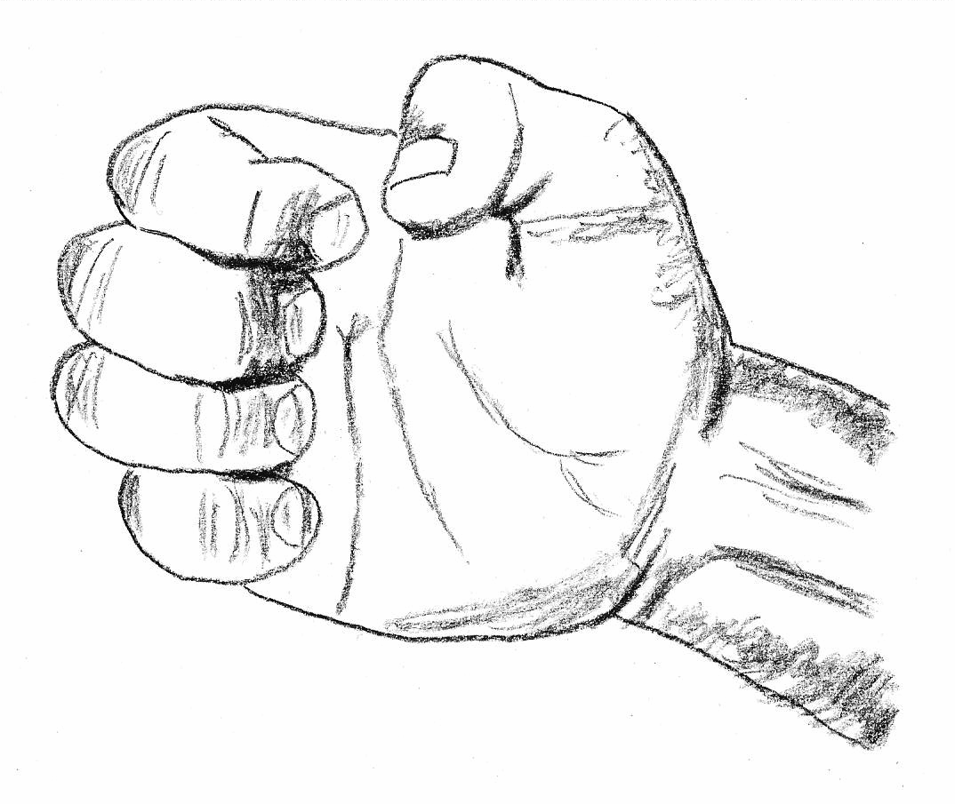 Karate techniques: Kumade